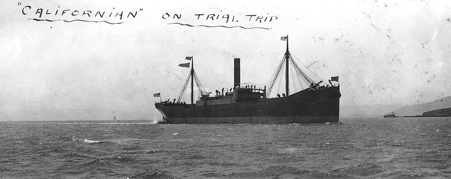 Cargo ship SS Californian underway in San Francisco Bay on builder's trials. She later served as US Navy cargo ship USS Californian.